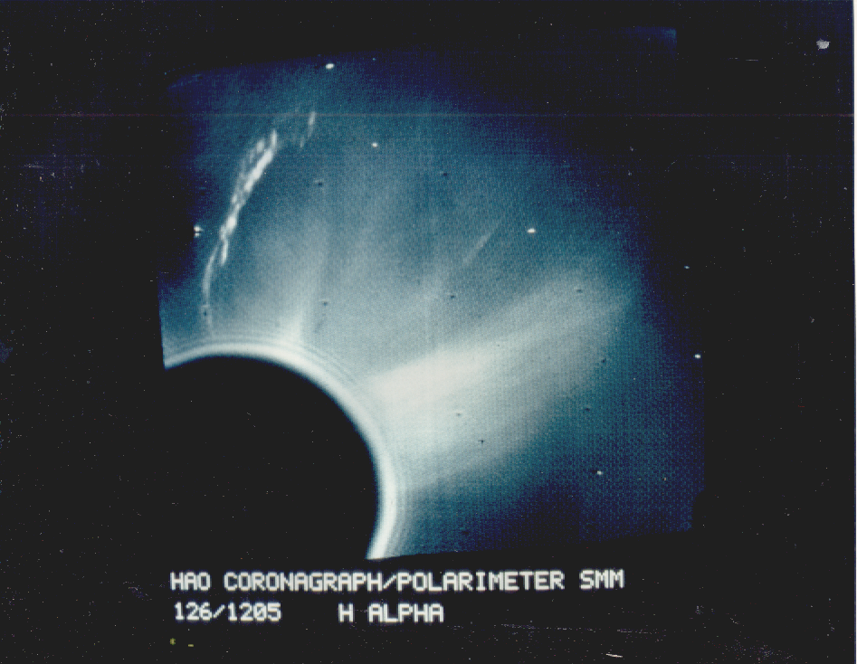 C/P image of the coronal transient of 5 May 1980, taken at 12:05 UT